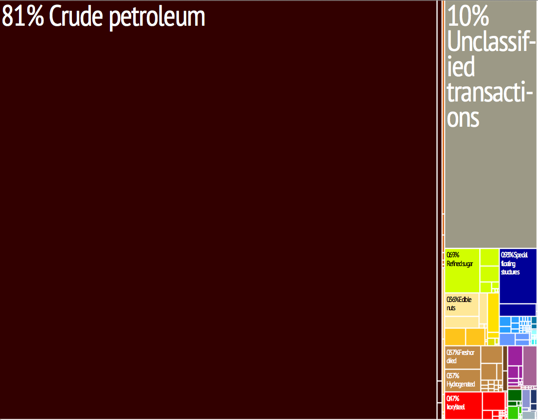 Export Trading Treemap. From MIT/Harvard Atlas of Economic Complexity